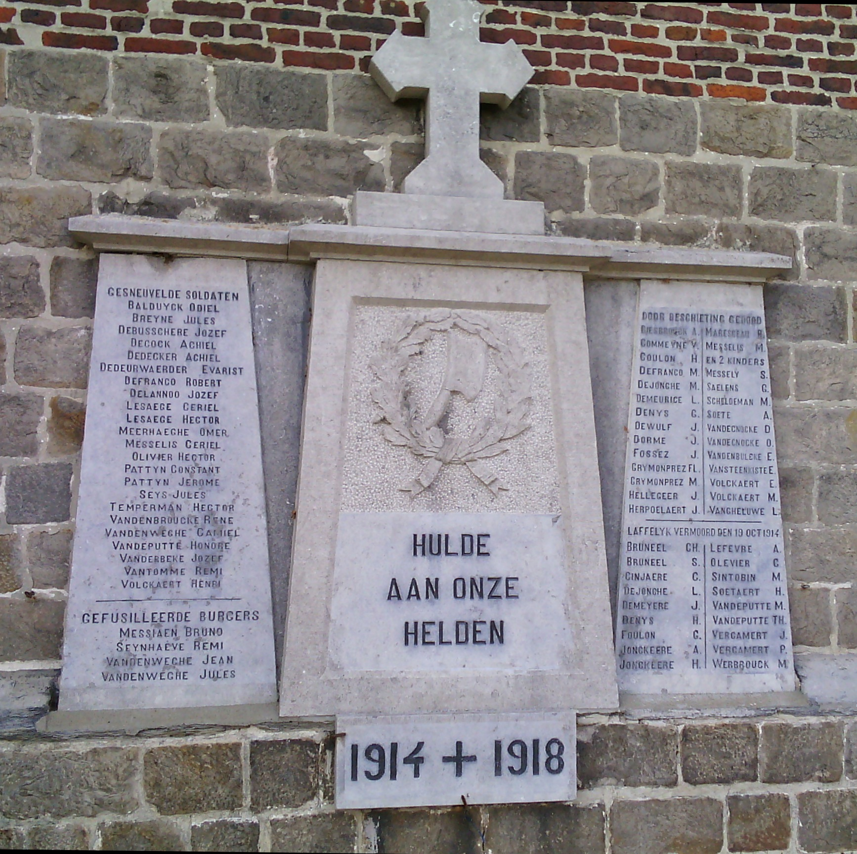 Monument to the fallen soldiers and civilians from Ledegem during WWI. The monument is located at the Saint Peter Church, B-8880 Ledegem, Belgium.